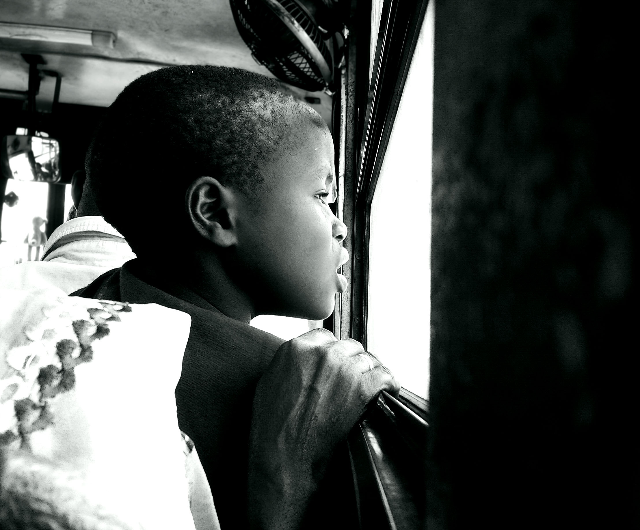 A boy astonished by what by what he saw looking through the window of a bus This is an image of "African people at work" from Nigeria